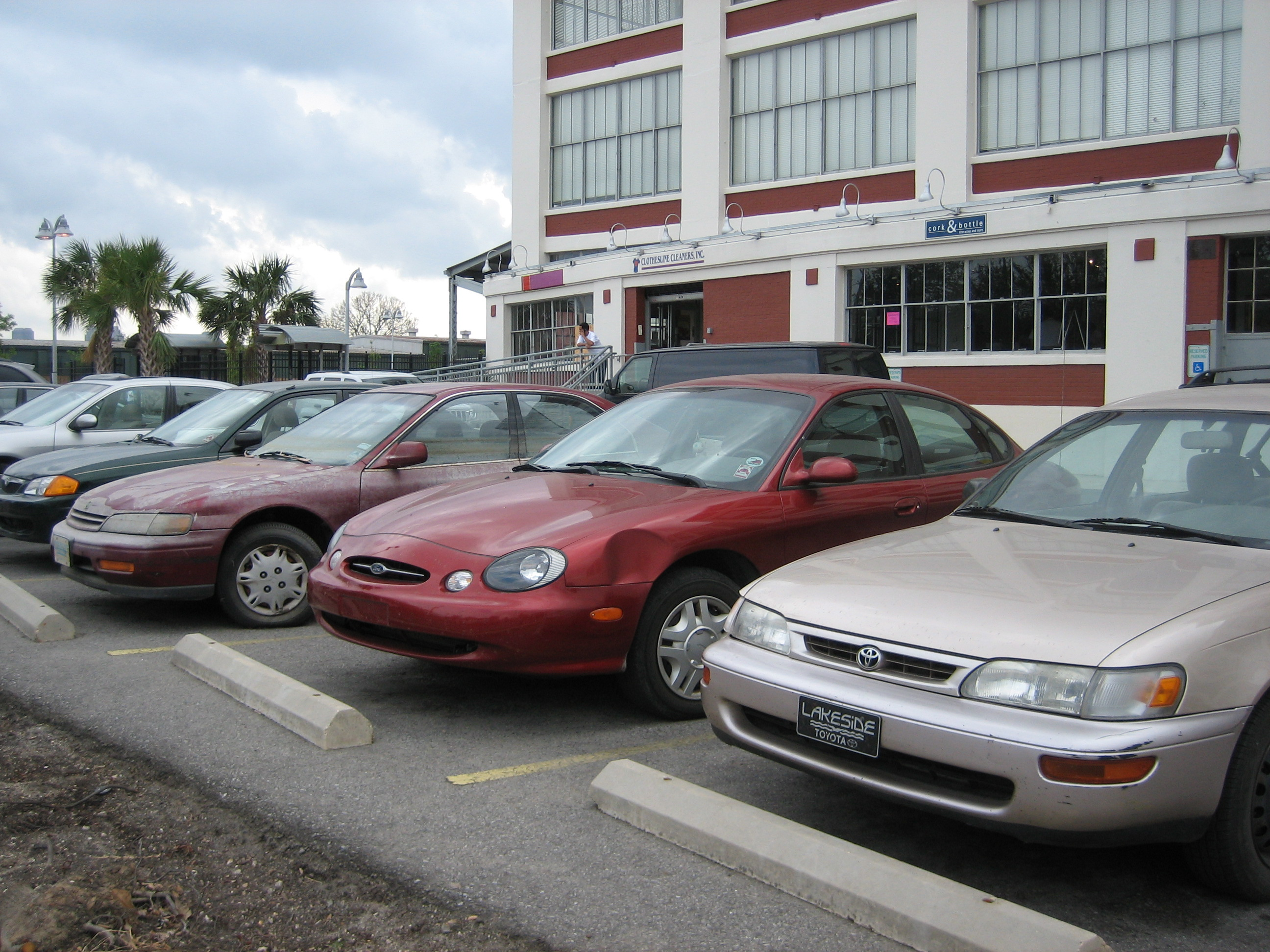 New Orleans after Hurricane Katrina: Parking lot of recently reopened business in formerly flooded Mid-City neighborhood shows cars of current customers along side a flooded out car in the space since before the storm (the red car on the left with the flood lines, if you couldn't guess). This is the American Can Building lot in front of Cork & Bottle Wines. Photo by Infrogmation of New Orleans, 5 November 2005.